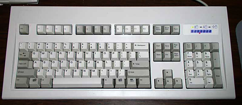 Unicomp Customizer 104 (UNI0P46) keyboard, manufactured April 25, 2005.